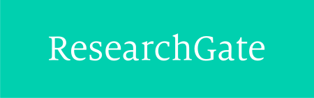 Logo of ResearchGate, a professional network for scientists